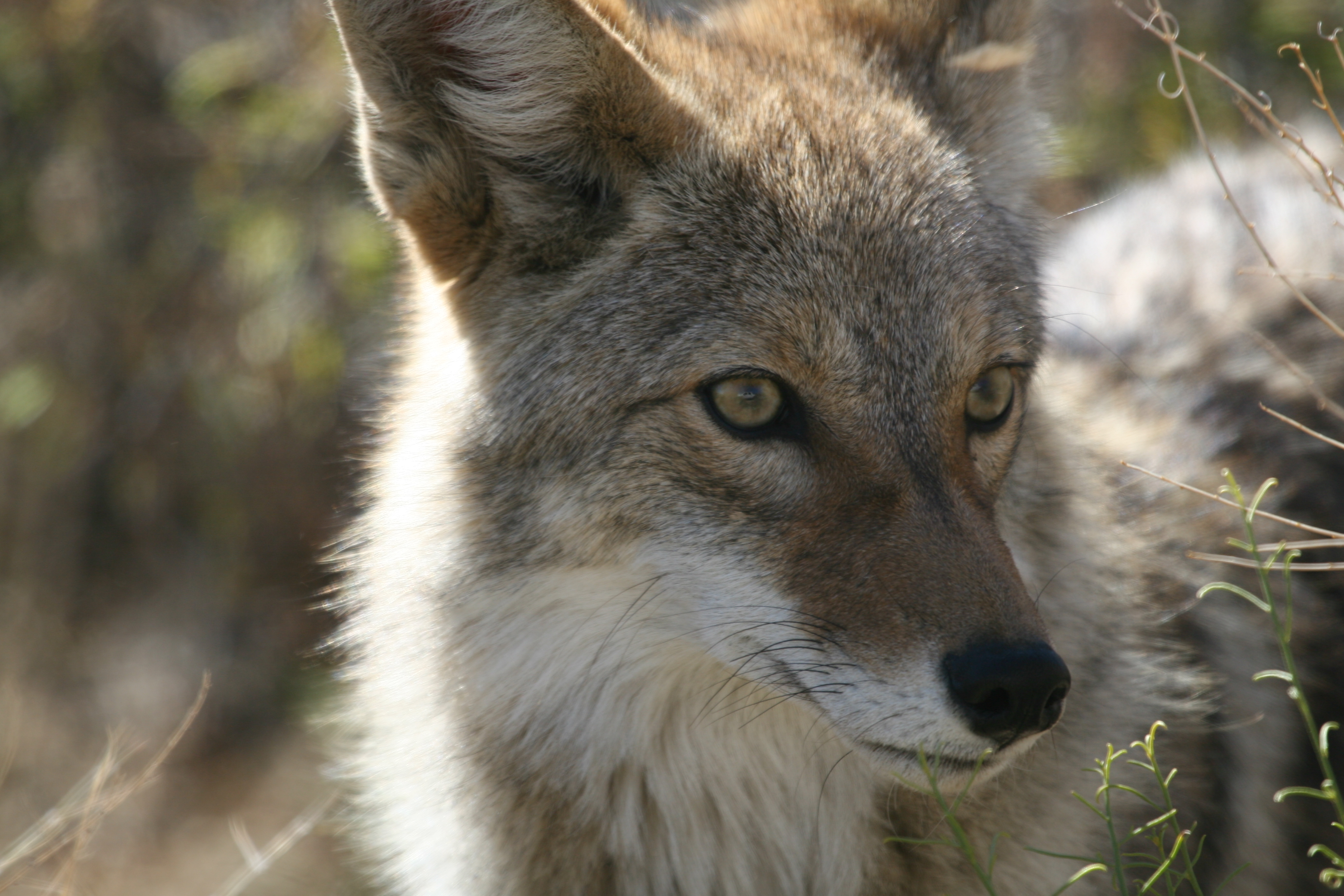 Coyote (Canis latrans), Joshua Tree National Park. NPS/Michael Vamstad